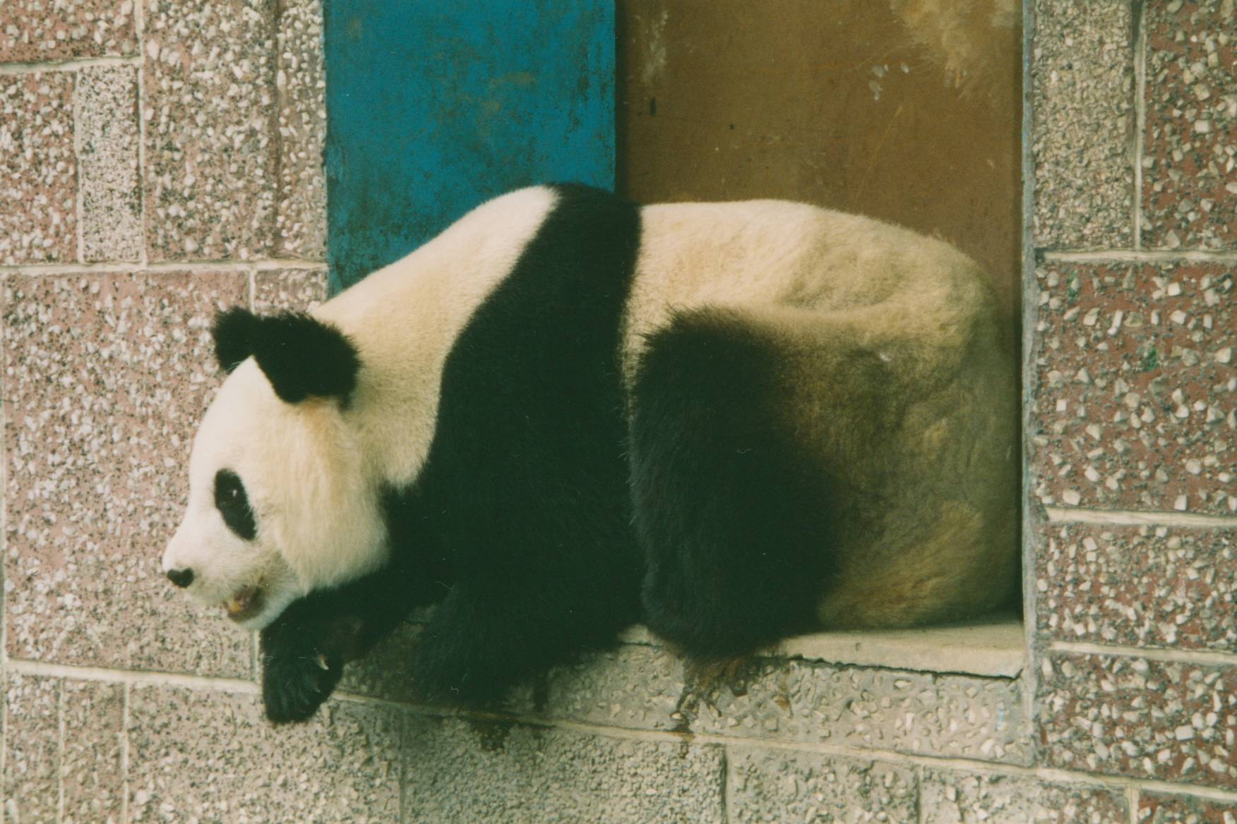 The giant panda, or panda (Ailuropoda melanoleuca, literally meaning "black and white cat-foot") is a bear native to central-western and south western China. It is easily recognized by its large, distinctive black patches around the eyes, over the ears, and across its round body. The giant panda lives in a few mountain ranges in central China, mainly in Sichuan province, but also in the Shaanxi and Gansu provinces. (From Wikipedia